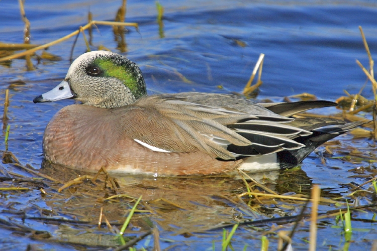 American Wigeon (Anas americana) from BC, Canada, Rotated 180 degrees